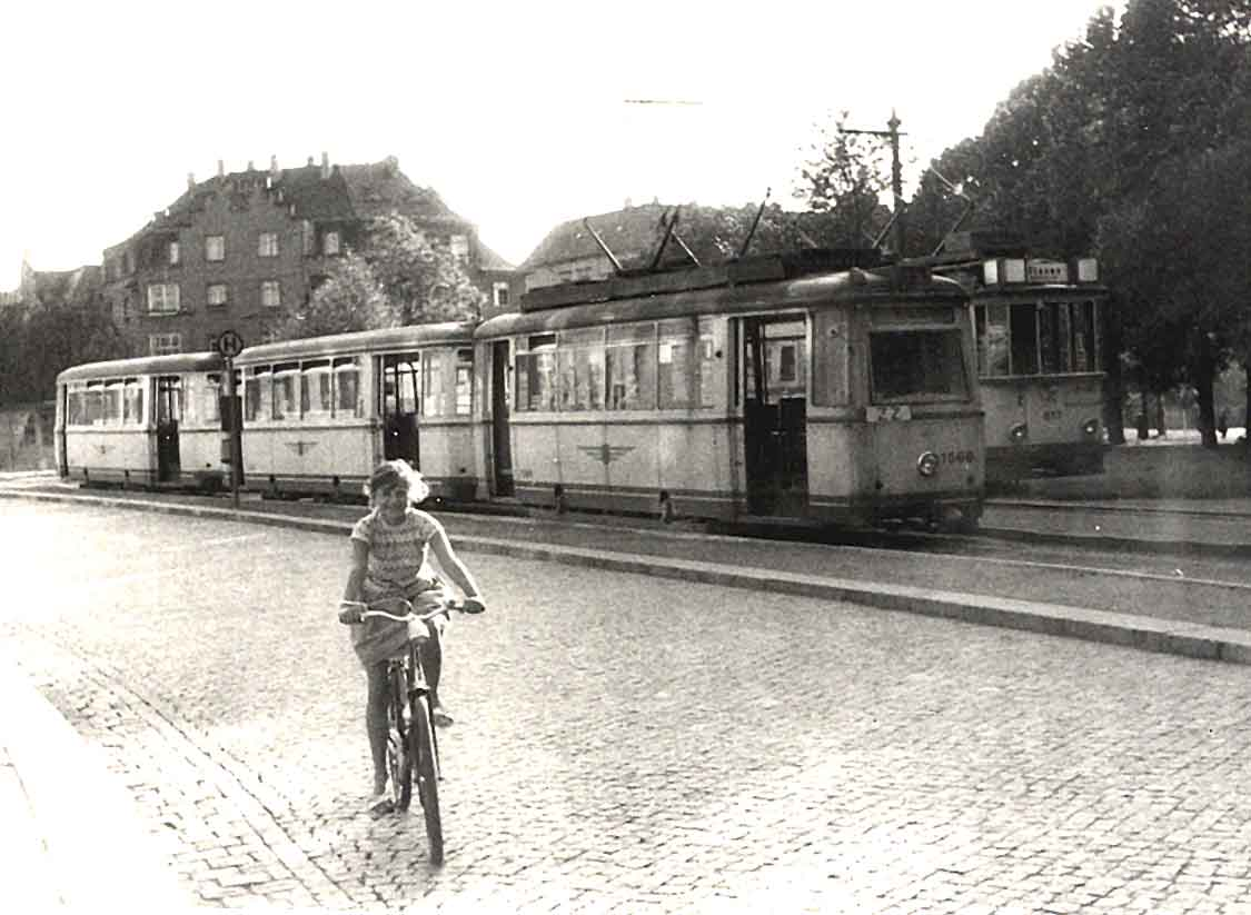 Dresden Tram streetcar at Münchner Straße, final station, bayerisches Viertel